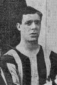 Bill Regan at Brentford FC 1902-03